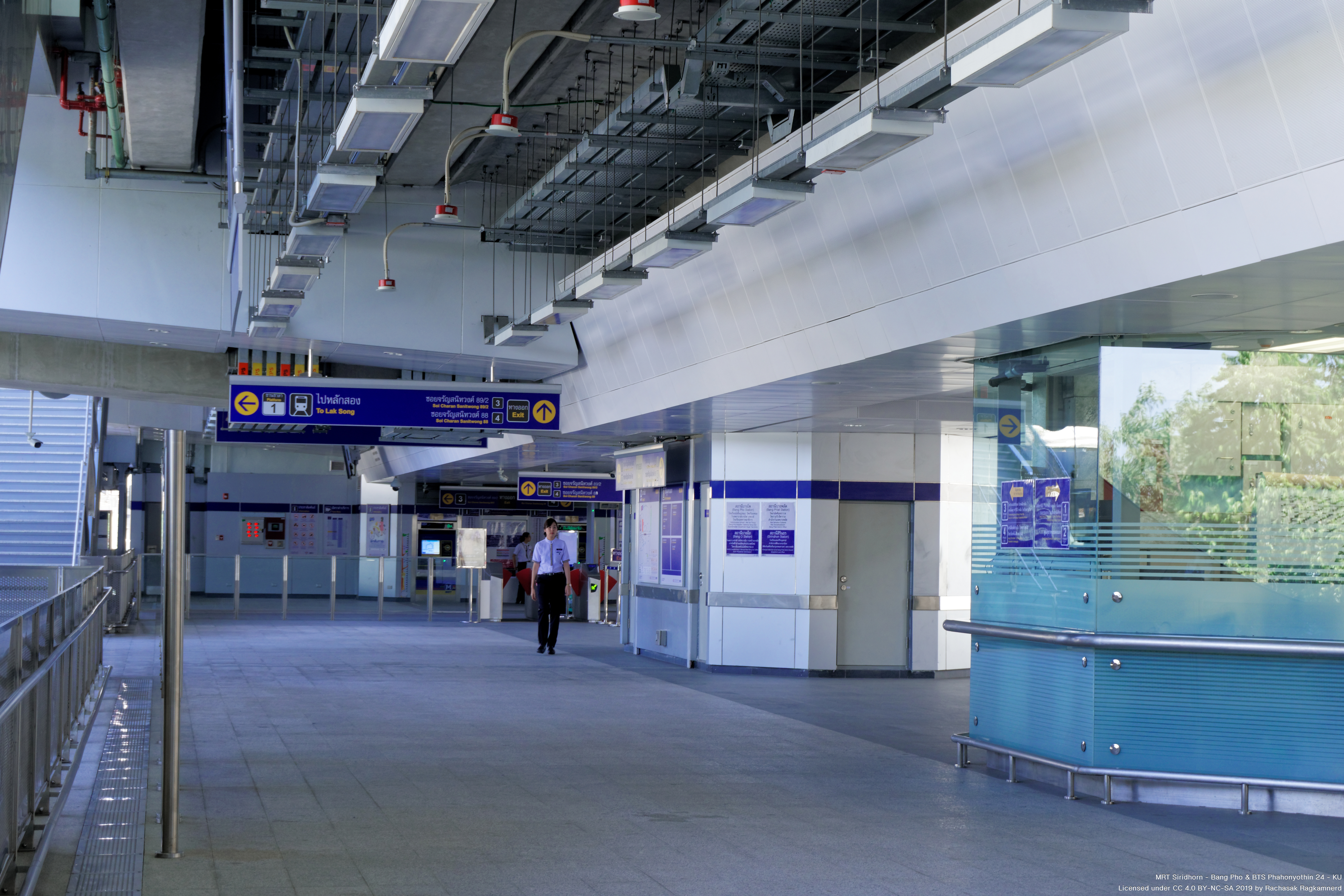 MRT Bang O - Ticket office area